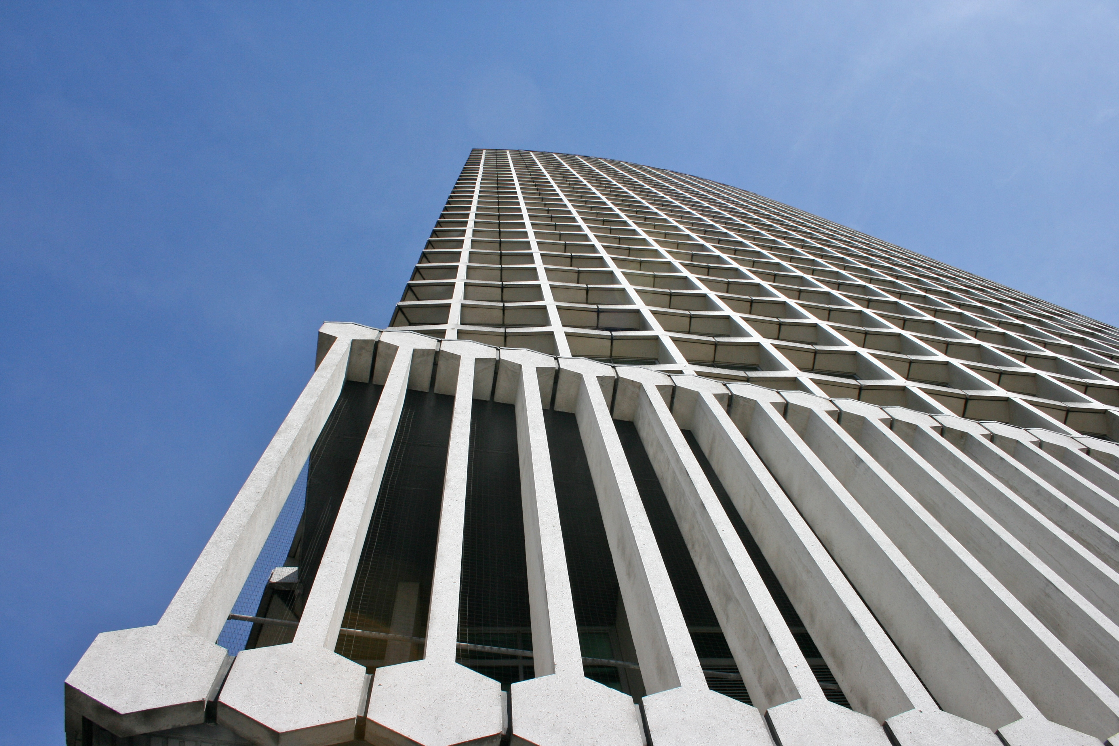 Centre Point, London.